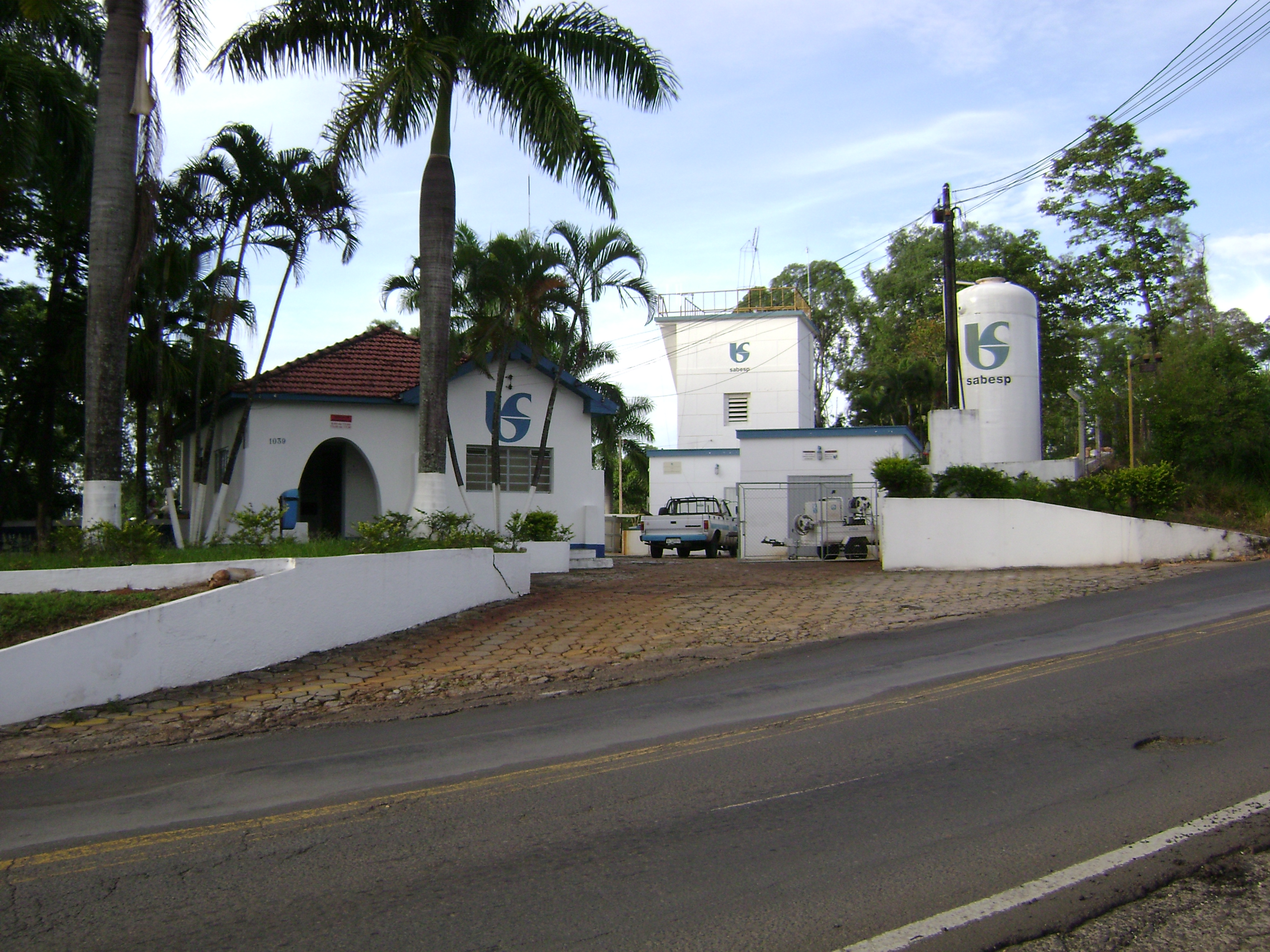 Sabesp office in Águas de São Pedro, Brazil.